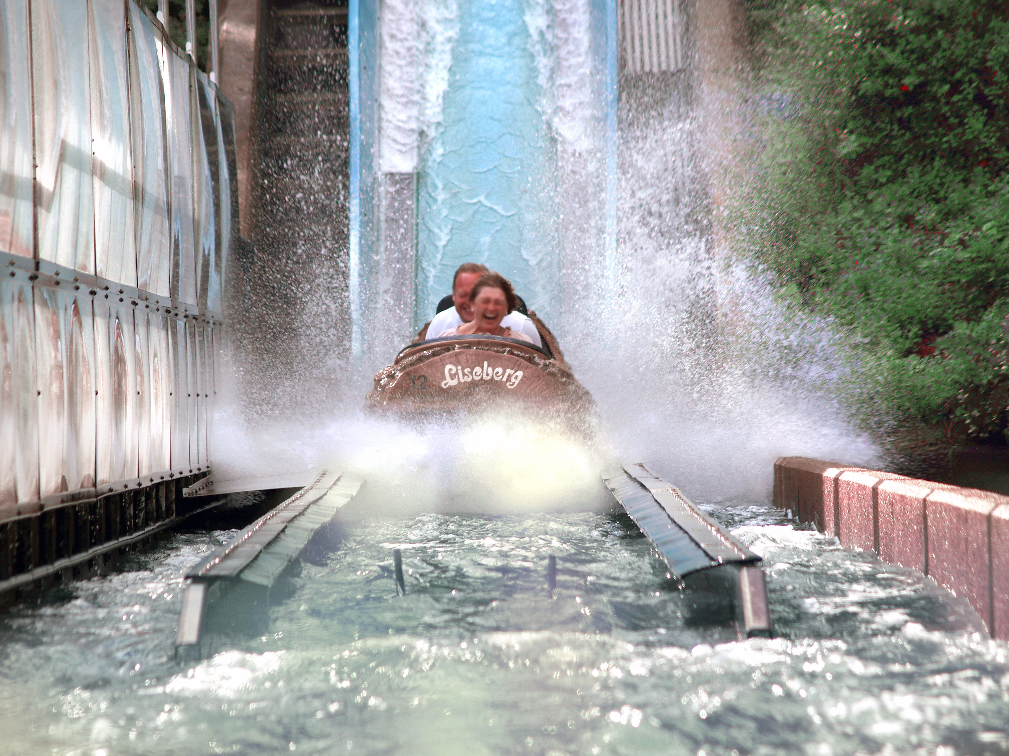 Flumeride at Liseberg in Gothenburg, Sweden.